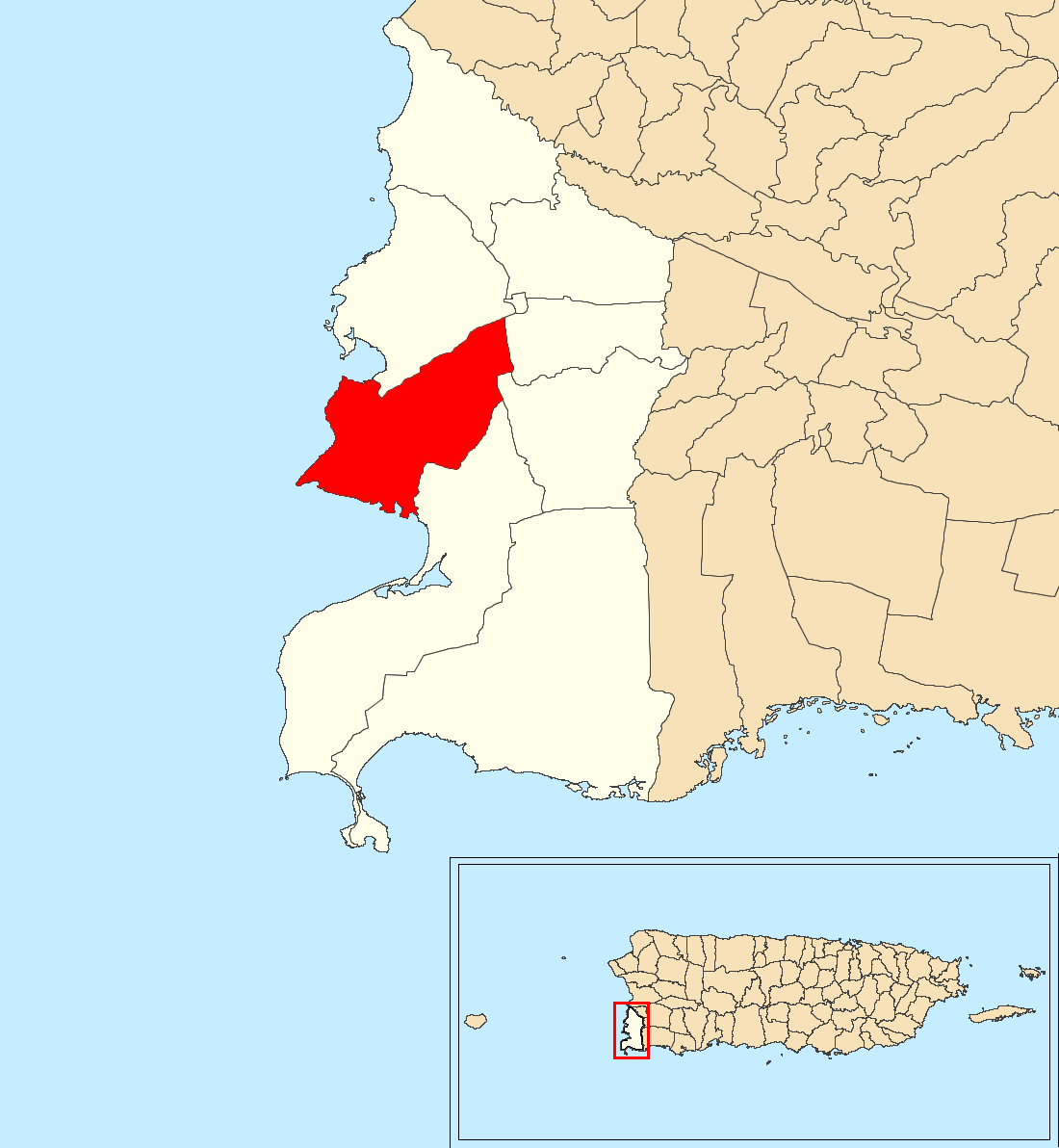 Pedernales, Cabo Rojo, Puerto Rico locator map